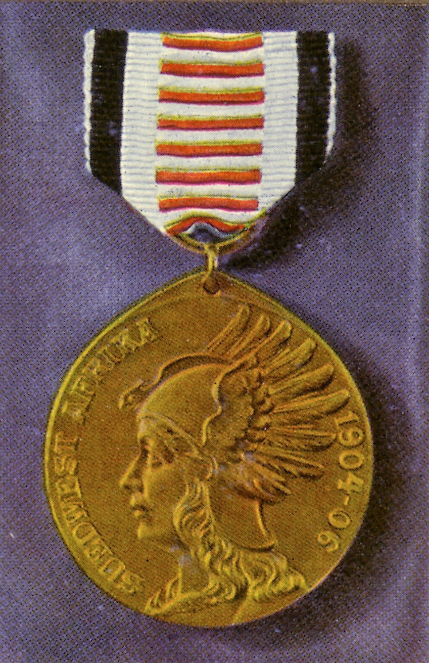 Colonial Medal German South West Africa (1912)